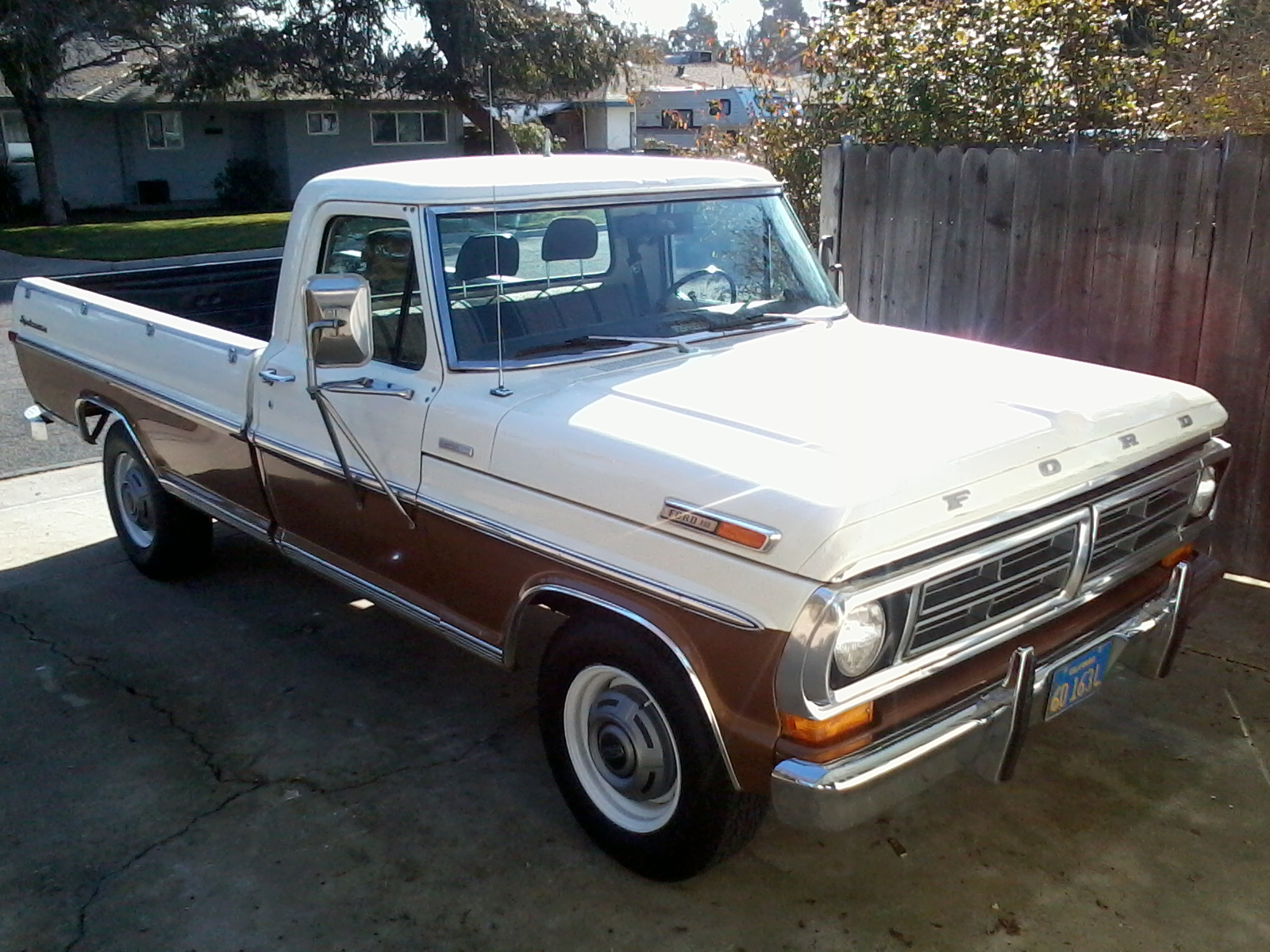 Photo of a 1972 Ford F-250 Camper Special pickup.